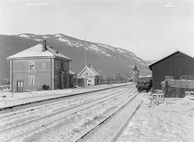 Nesbyen railway station on Bergensbanen, Nes, Buskerud, Norway.